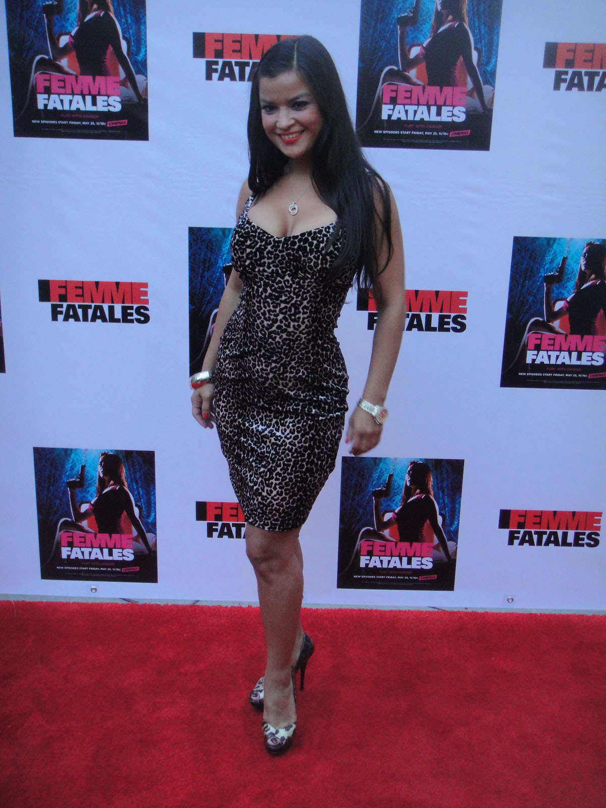 Femme Fatales Red Carpet - Crystle Lightning